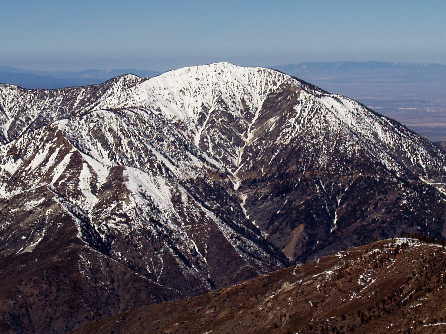 Mount Baden-Powell — of the San Gabriel Mountains, in the Angeles National Forest and Los Angeles County, Southern California. The Antelope Valley of the Mojave Desert is in the backround.